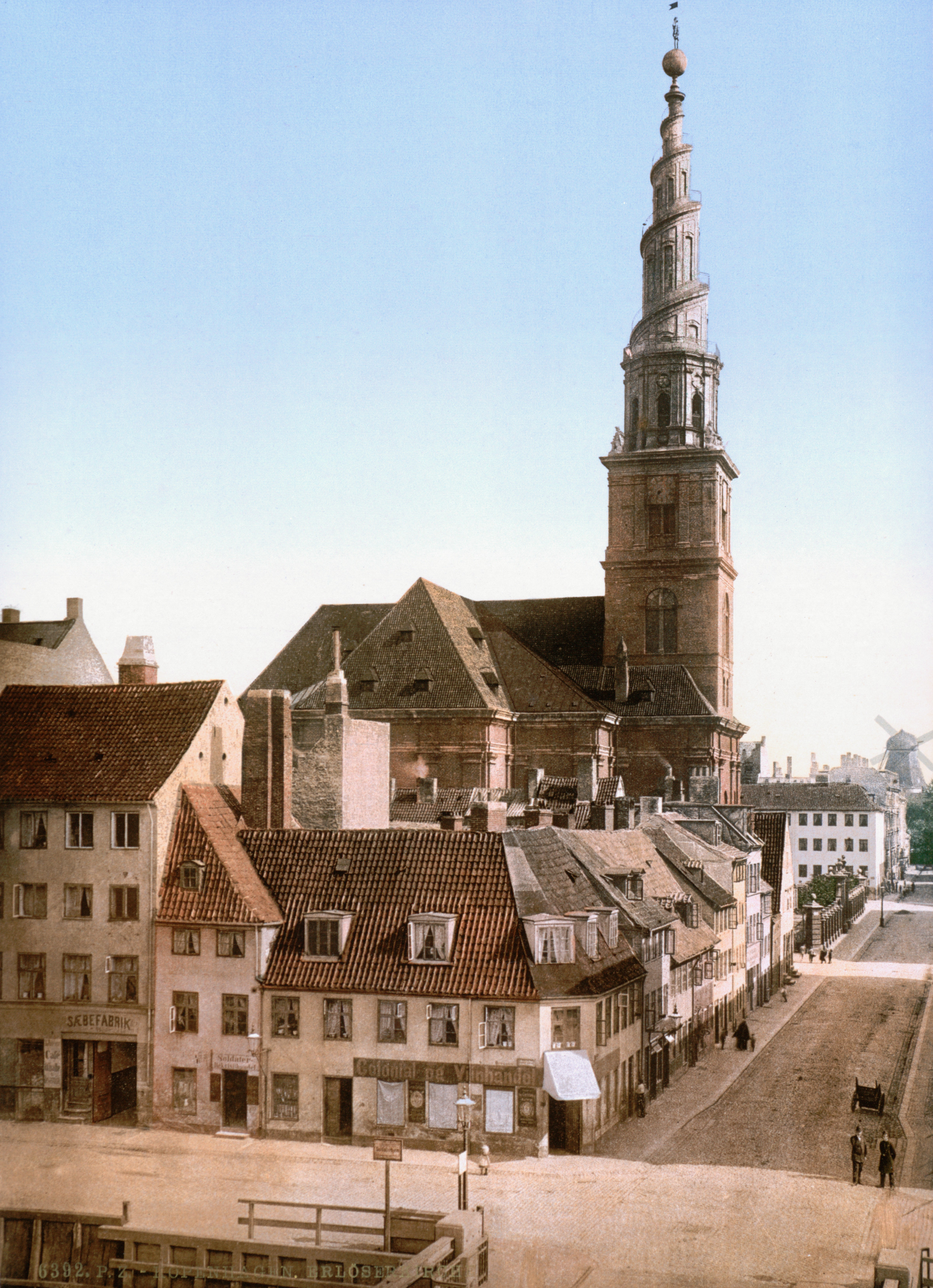 [Saviour Church, Copenhagen, Denmark] [between ca. 1890 and ca. 1900]. 1 photomechanical print : photochrom, color. Notes: Title from the Detroit Publishing Co., catalogue J, foreign section. Detroit, Mich. : Detroit Publishing Company, c1905. Print no. 6392. Forms part of: Views of architecture and other sites in Copenhagen, Denmark in the Photochrom print collection. Subjects: Denmark--Copenhagen. Format: Photochrom prints--Color--1890-1900. Repository: Library of Congress, Prints and Photographs Division, Washington, D.C. 20540 USA, Part Of: Views of architecture and other sites in Copenhagen, Denmark (DLC) 2001697980 More information about the Photochrom Print Collection is available at Persistent URL: Call Number: LOT 13421, no. 007 [item]